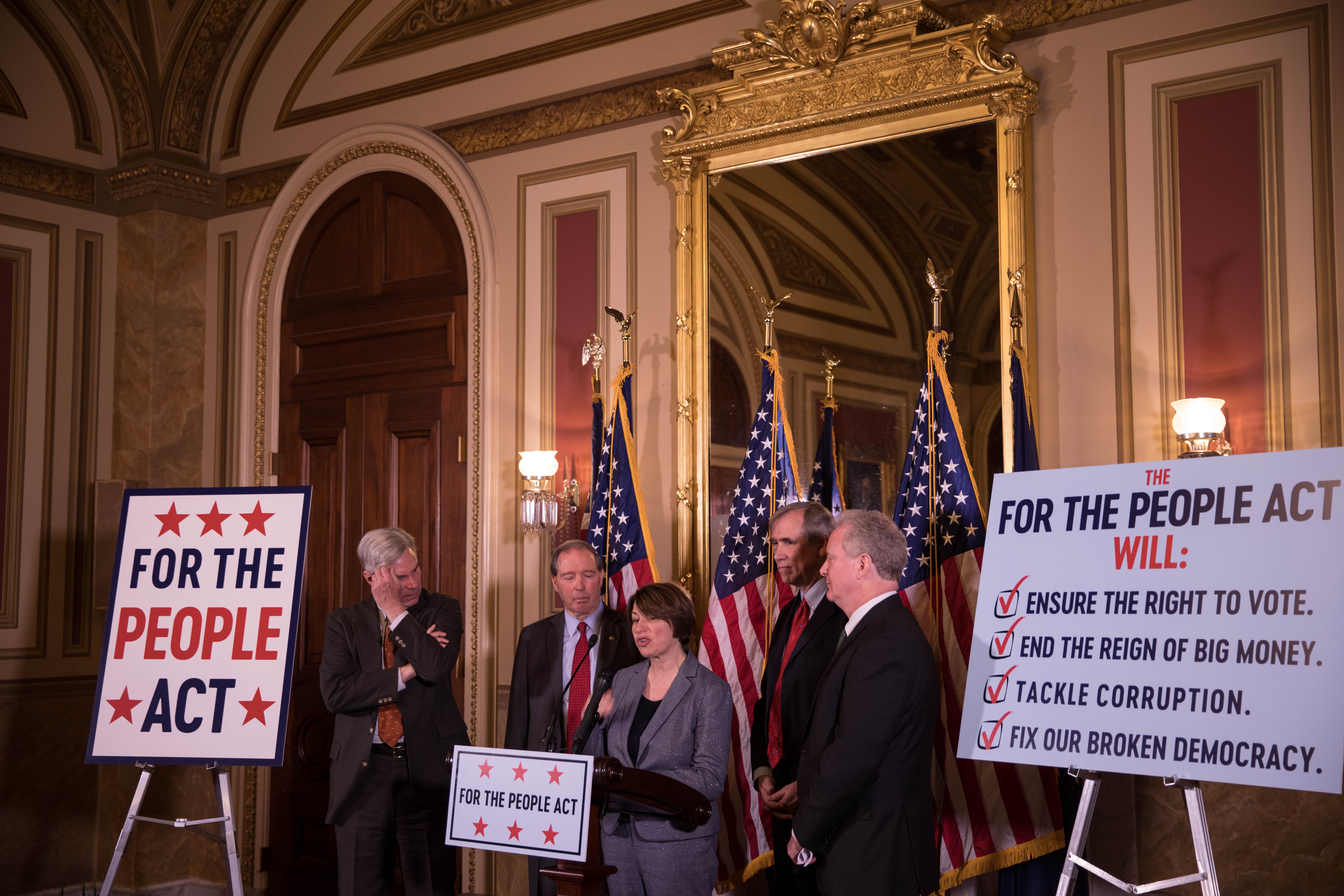 ForThePeople_cam2_032719 (54 of 54)